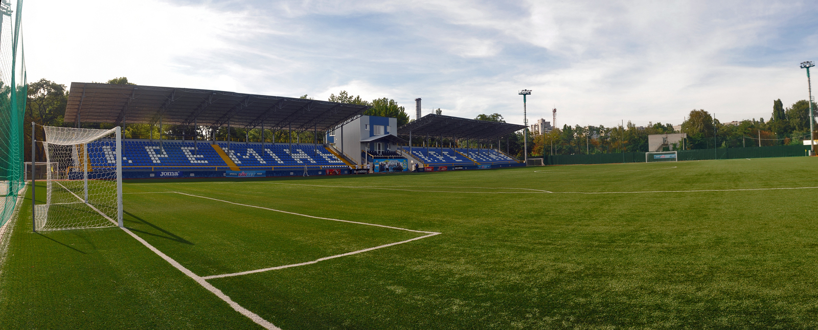 Kremin Arena in Kremenchuk, Poltava Oblast, Ukraine